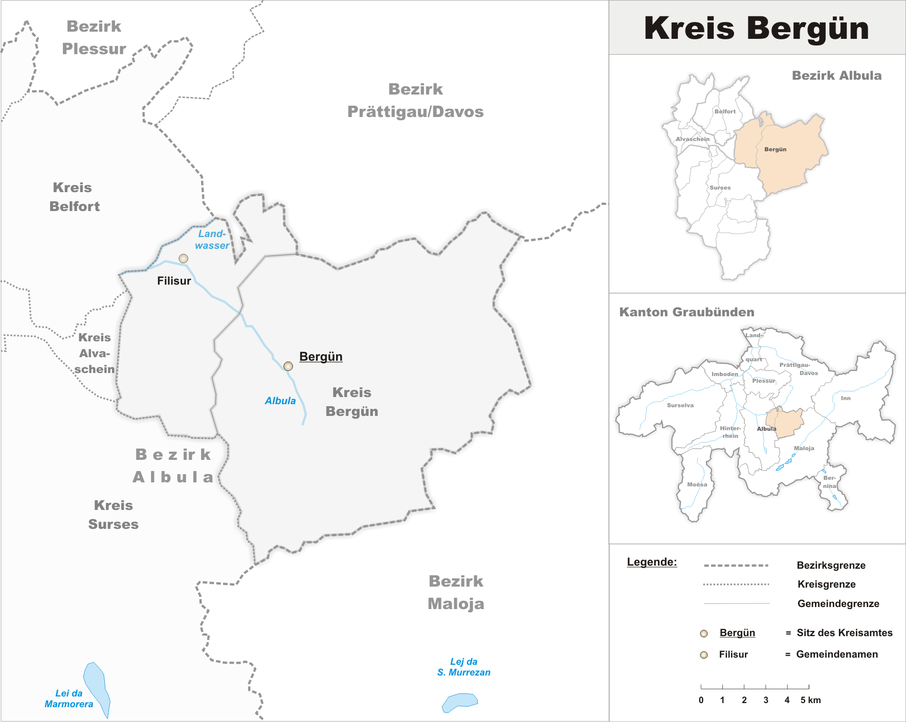 Municipalities in the circle of Bergün